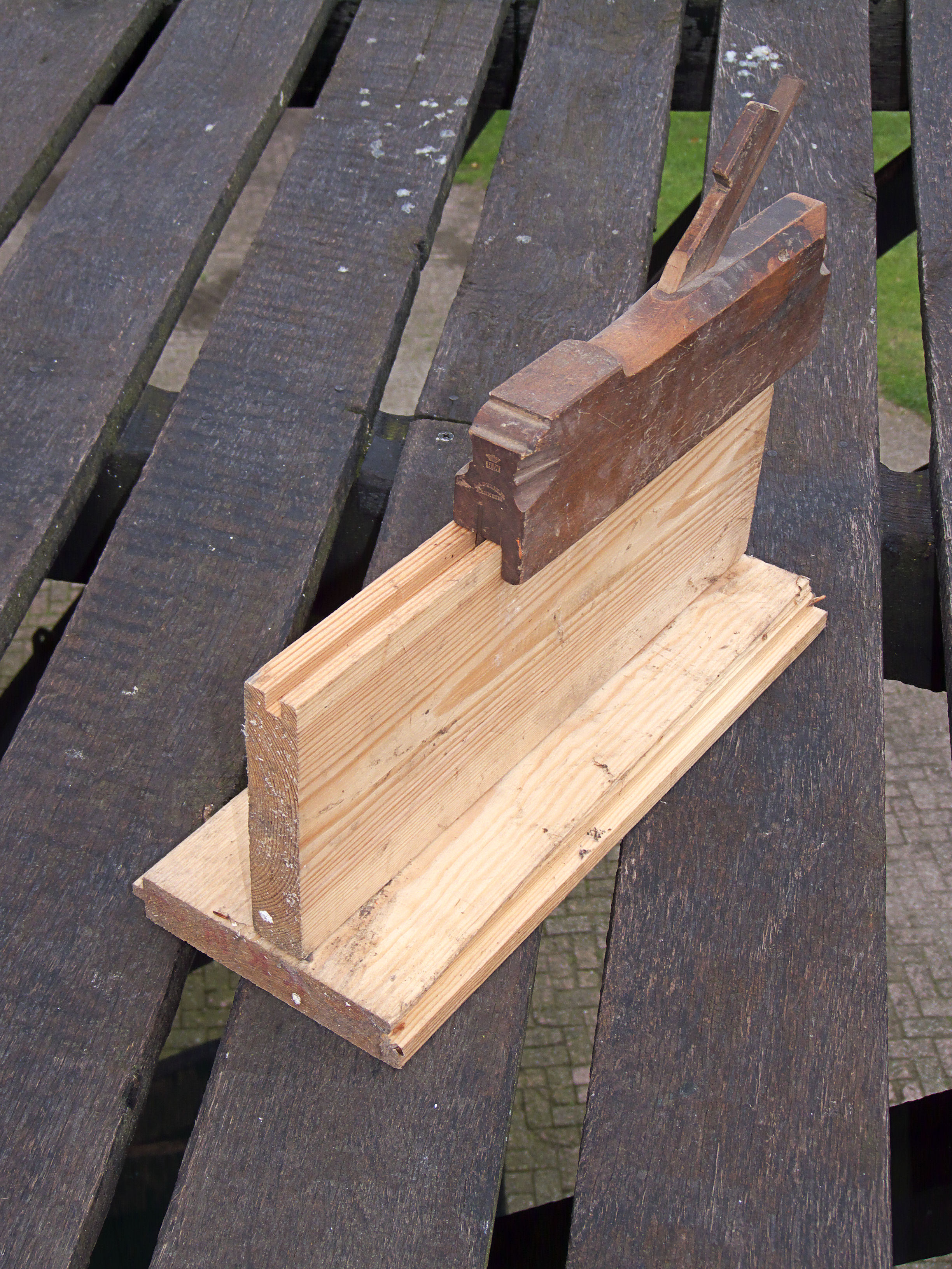 Tongue and groove Plane